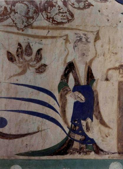 Fresco of a young woman dressing in tsa-chü-chʻui-shao-fu, Mo-kao Caves at Tunhwang, Western Wei dynasty (535–557).